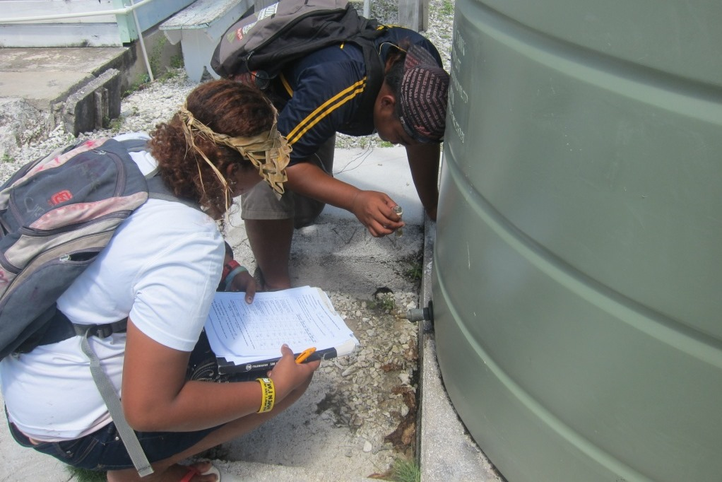 Tokelauan youth participating in water quality testing, 2012. Photo: DFAT